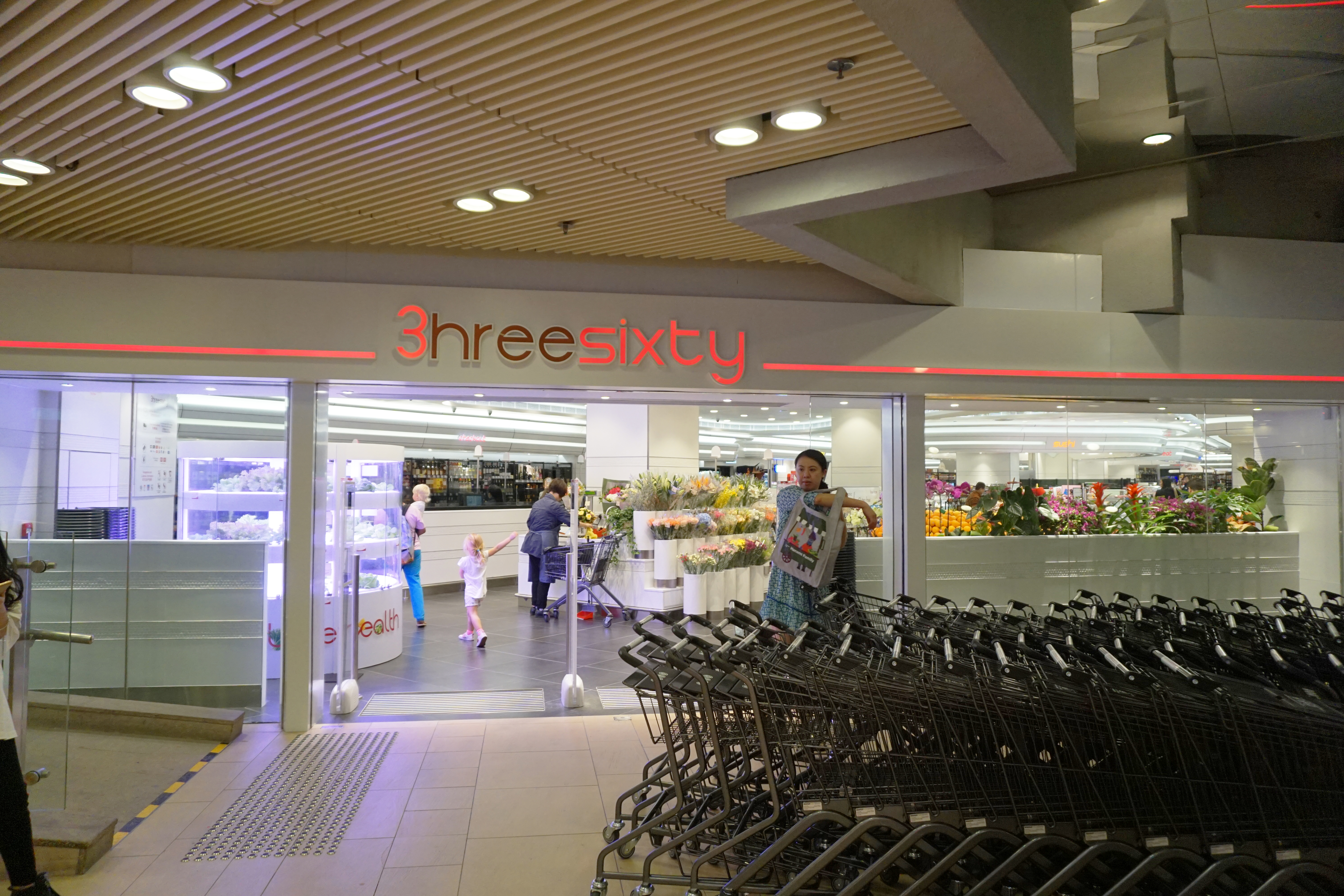 3hreeSixty in Stanley, Hong Kong.